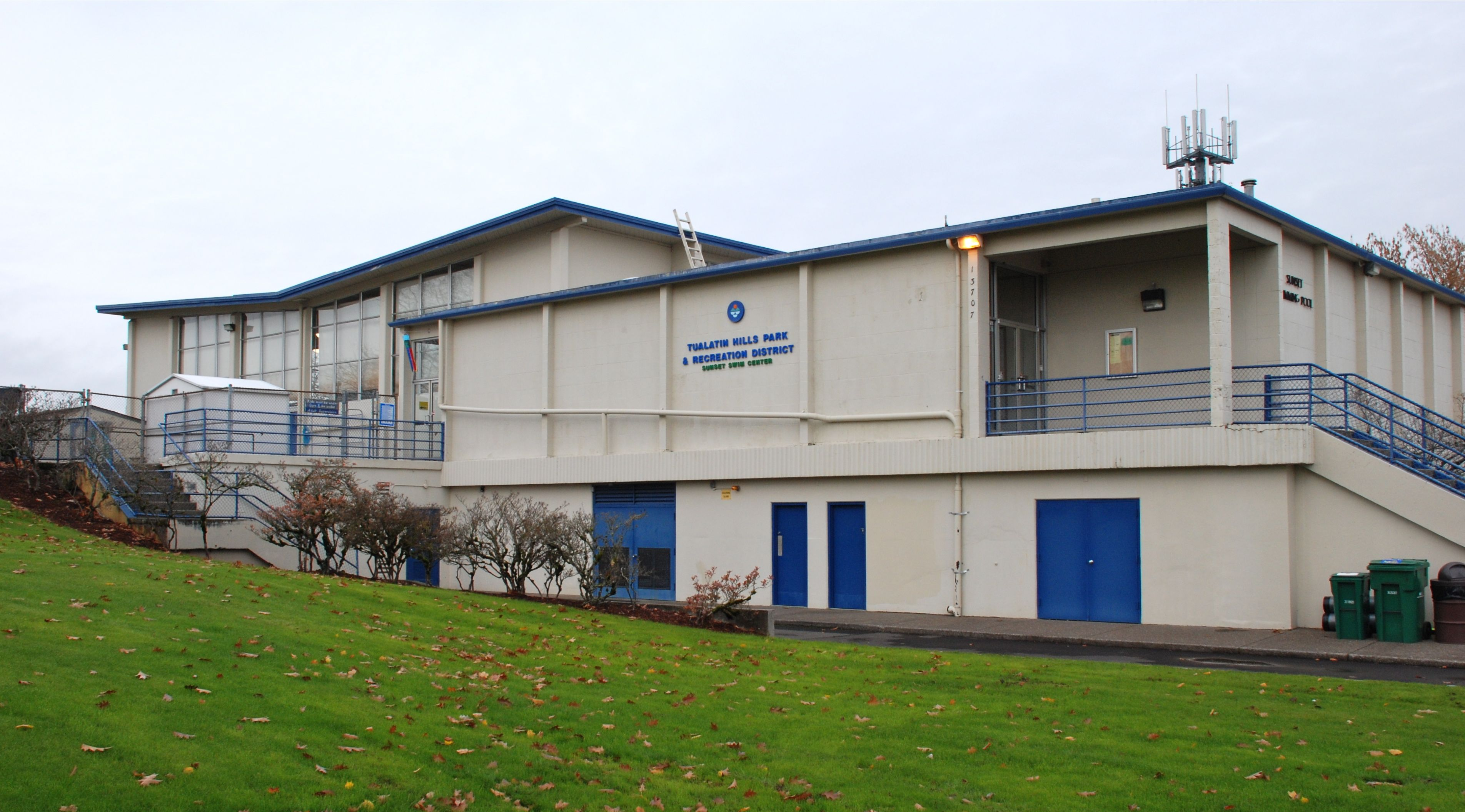 The Sunset Swim Center, located adjacent to Sunset High School, in Beaverton, Oregon, is operated by the Tualatin Hills Park & Recreation District. It is located on Science Park Drive, in the Cedar Mill area.